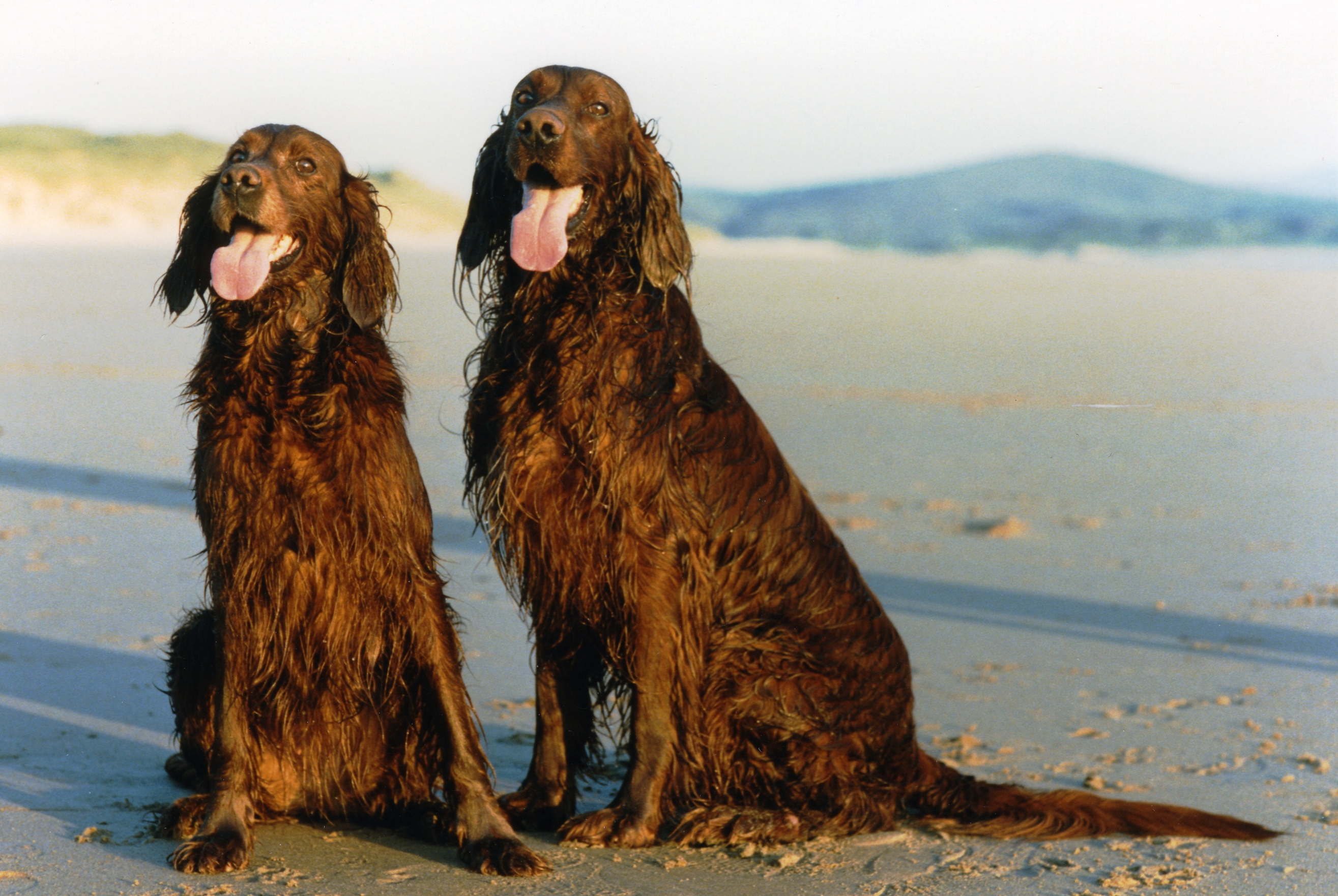 Two Irish Red Setter, mother and daughter, pictured in the Summer of 1986 at the Five Finger Strand, Inishowen, County Donegal, in Ireland.